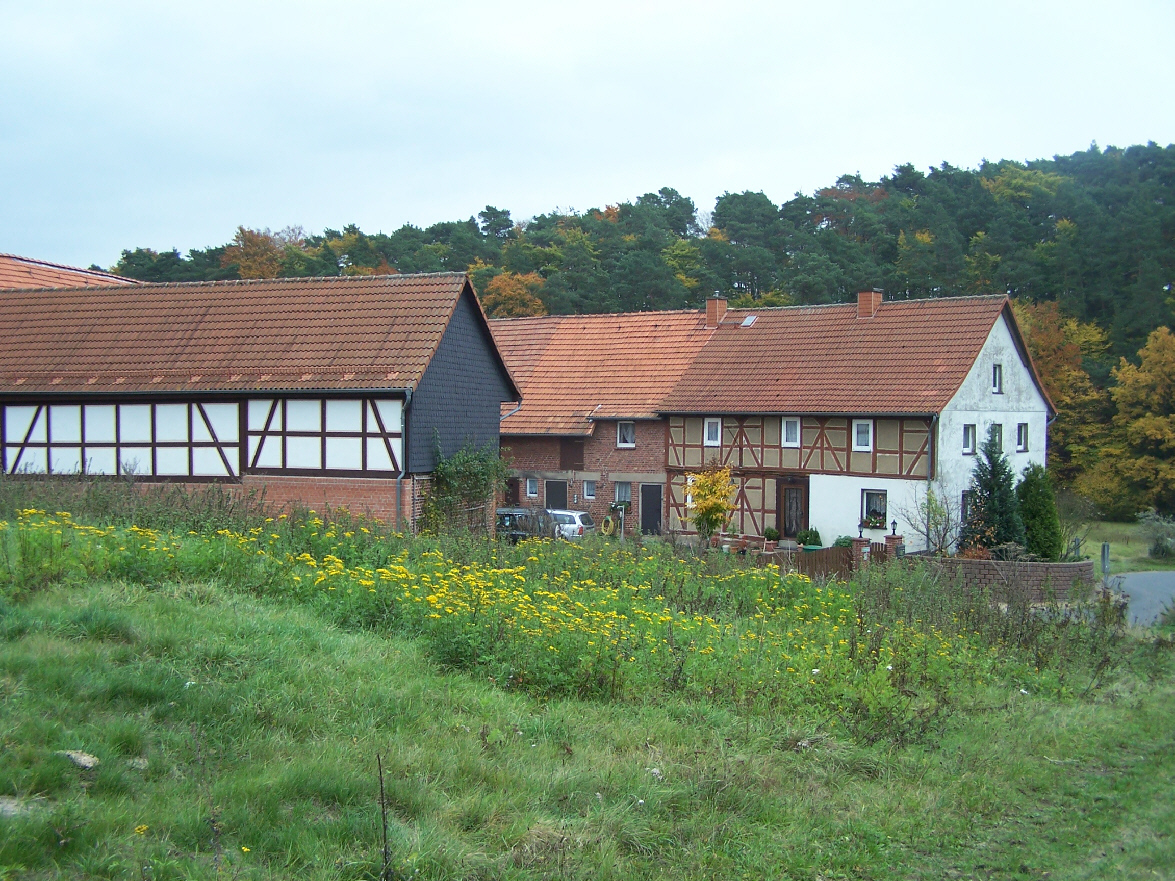 The court Gasteroda near Vitzeroda.